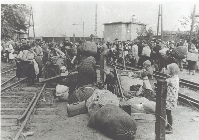 Warsaw Uprising - German Transit Camp in Pruszków (Dulag 121). Polish civilians expelled from Warsaw on railway siding in Pruszków.